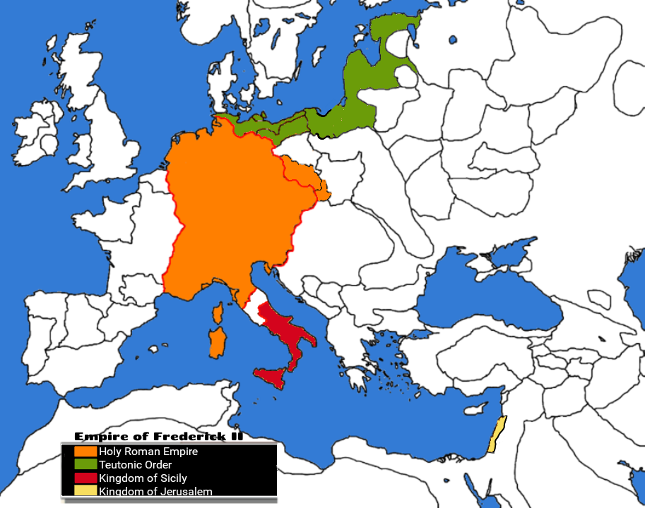 Dominions of Friedrick II (Kingdom of Sicily, Holy Roman Empire, Kingdom of Jerusalem